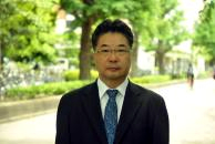 Kazutoshi Mori, Professor of the Graduate School of Science, Kyoto University, received the Person of Cultural Merit on November, 2018.